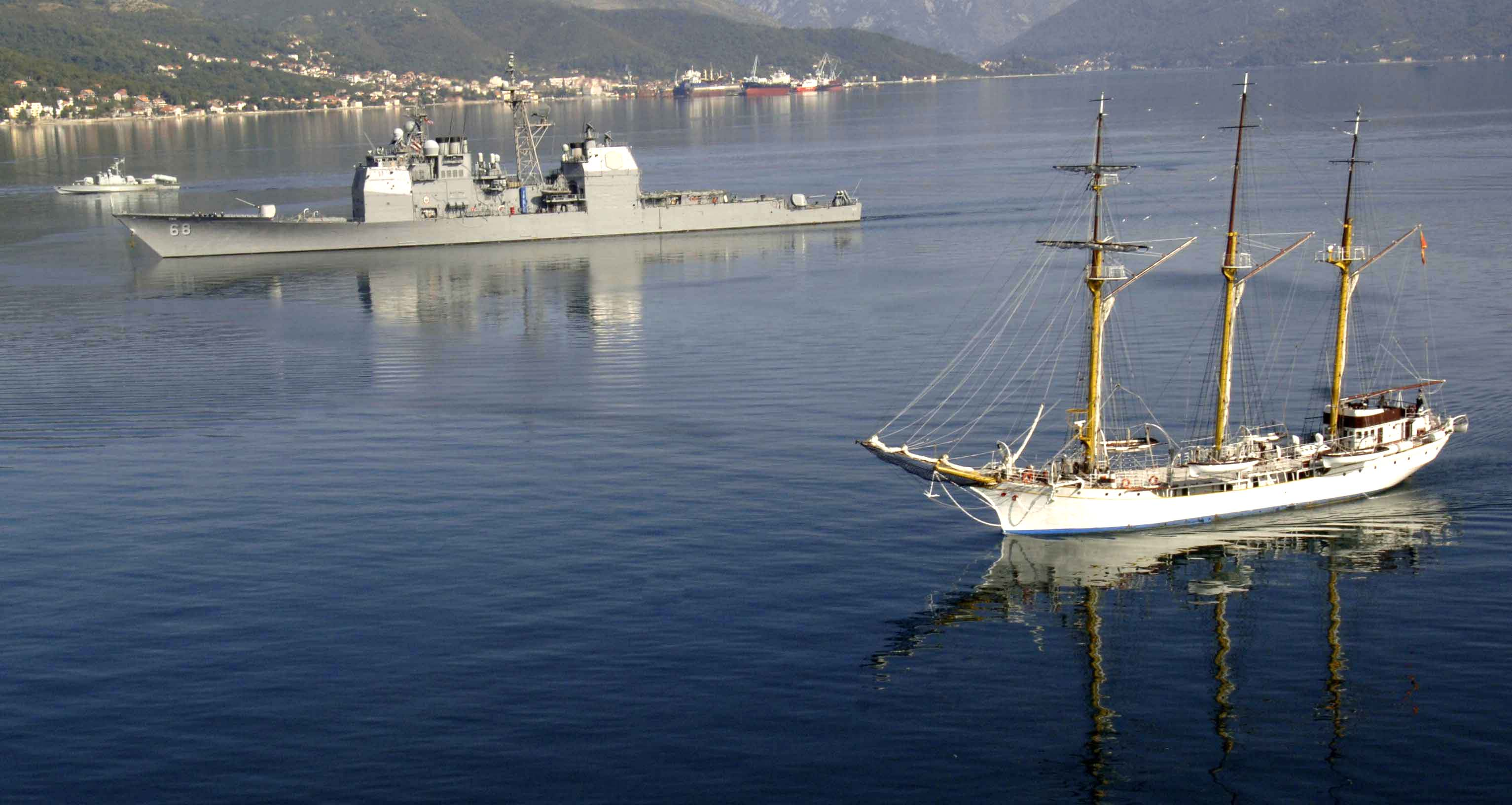 Tivat, Montenegro (Oct. 26, 2006) - The Montenegrin ship Jadron sails alongside the guided missile cruiser USS Anzio (CG 68) as the ship departs Tivat, Montenegro following a three-day visit to strengthen the relationship between the two countries. U.S. Navy photo by Mass Communication Specialist 3rd Class Matthew D. Leistikow (RELEASED)